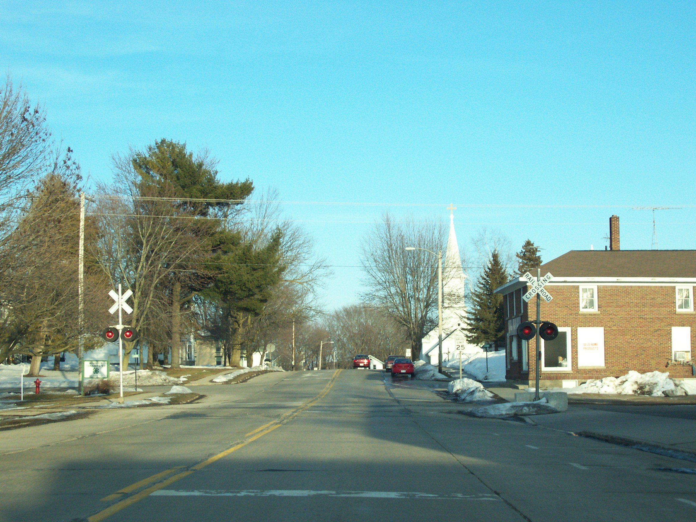 Looking east at Brandon, Wisconsin, USA while travelling on Wisconsin Highway 49. Taken March 11, 2007 by myself.